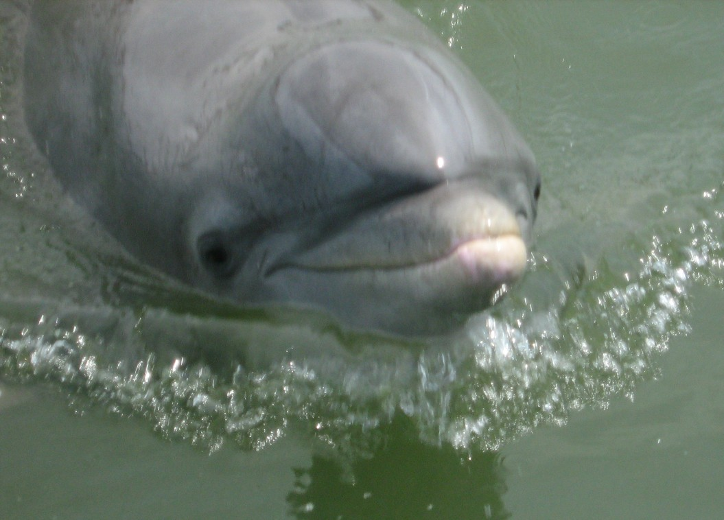 Bottlenose dolphin in the Calibogue Sound just outside of Harbour Town Marina, Hilton Head Island, South Carolina, United States.